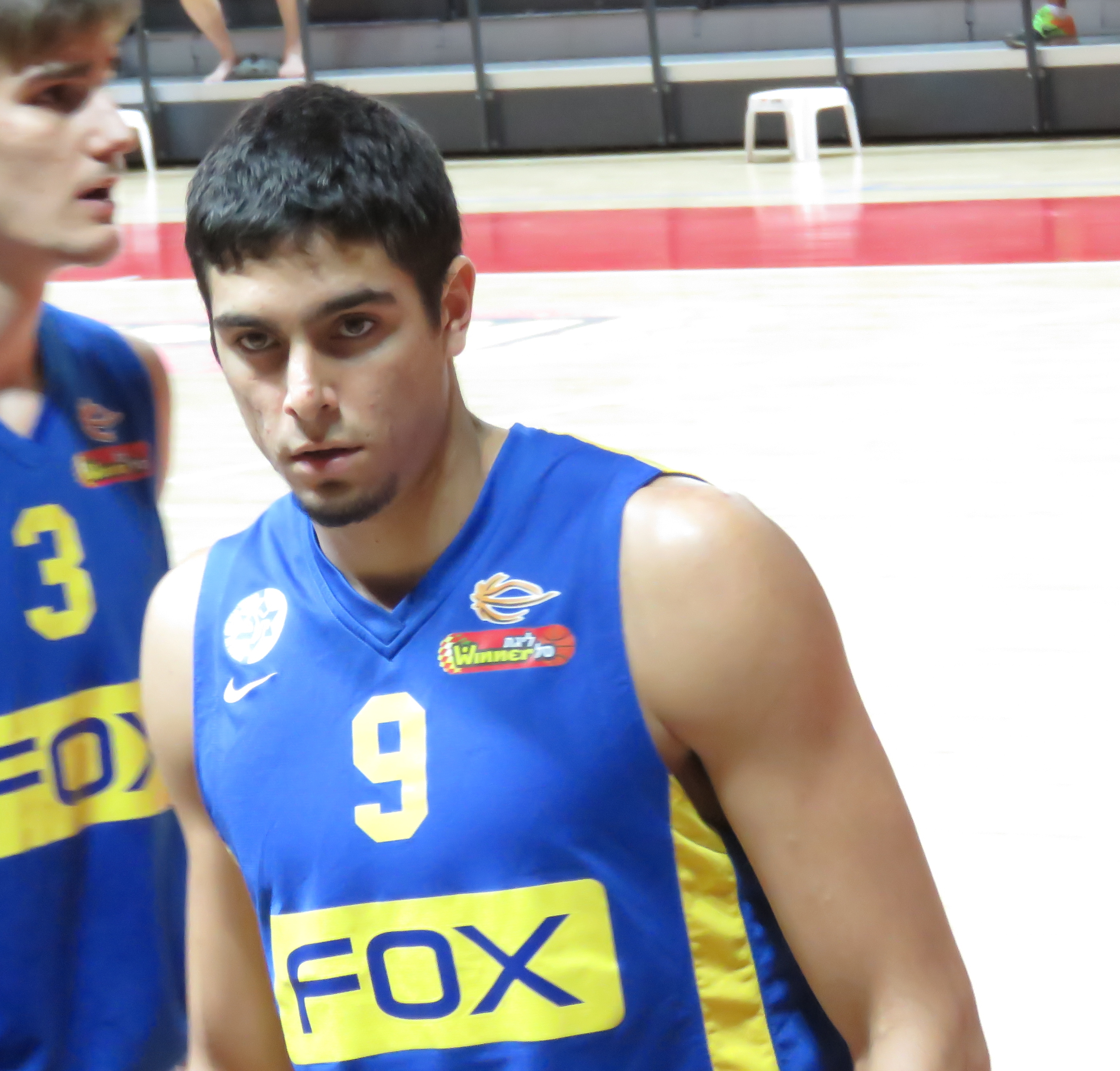 Maccabi Rishon LeZion vs. Maccabi Tel Aviv B.C., 26 September, 2015